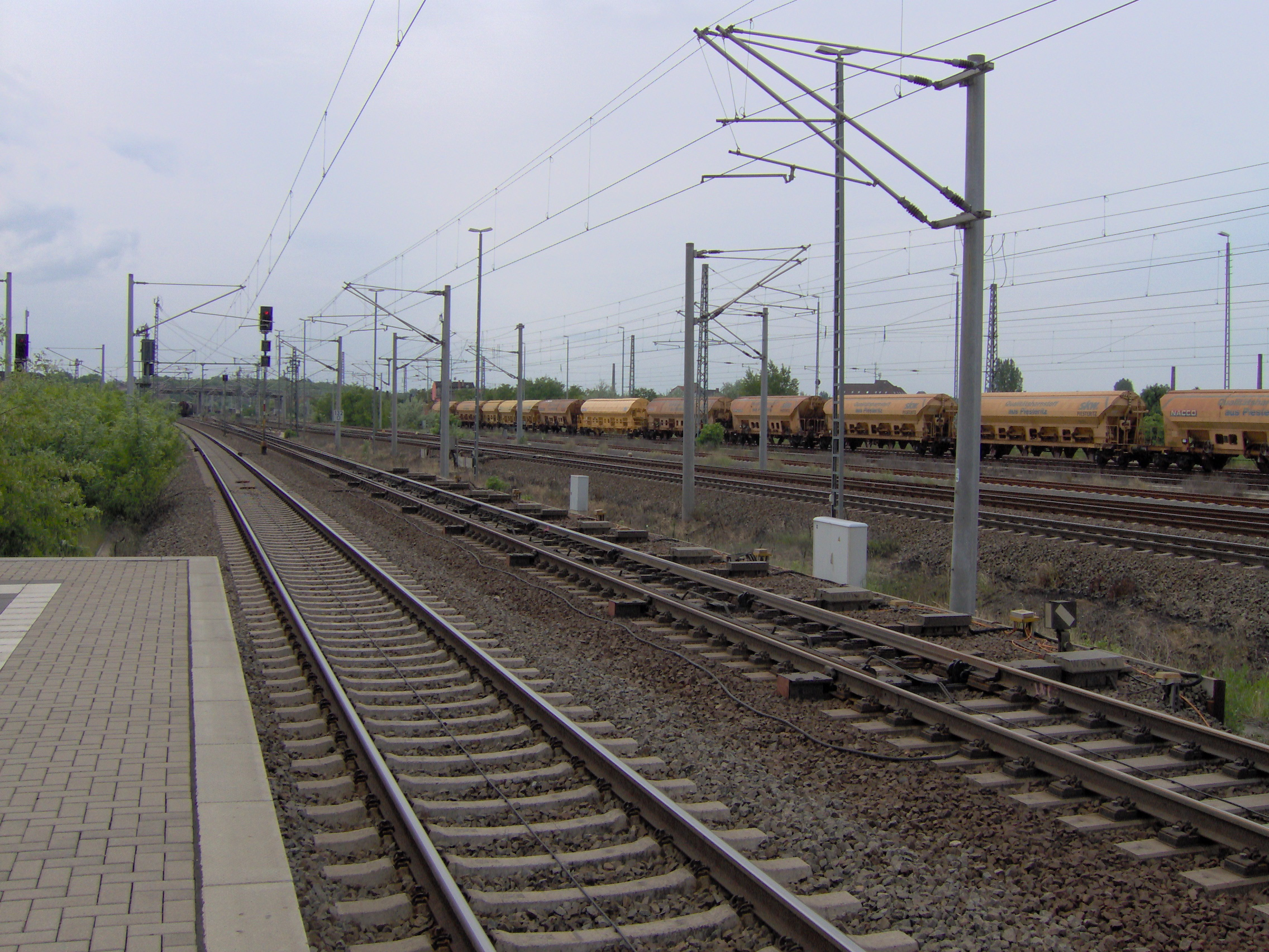 Switch motors of a high-speed switch EW 60-16000/6100-1:40,154-fb at the southern end of Bitterfeld station, Germany.